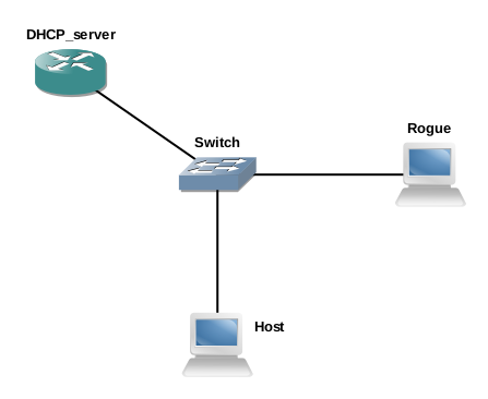 DHCP server spoofing